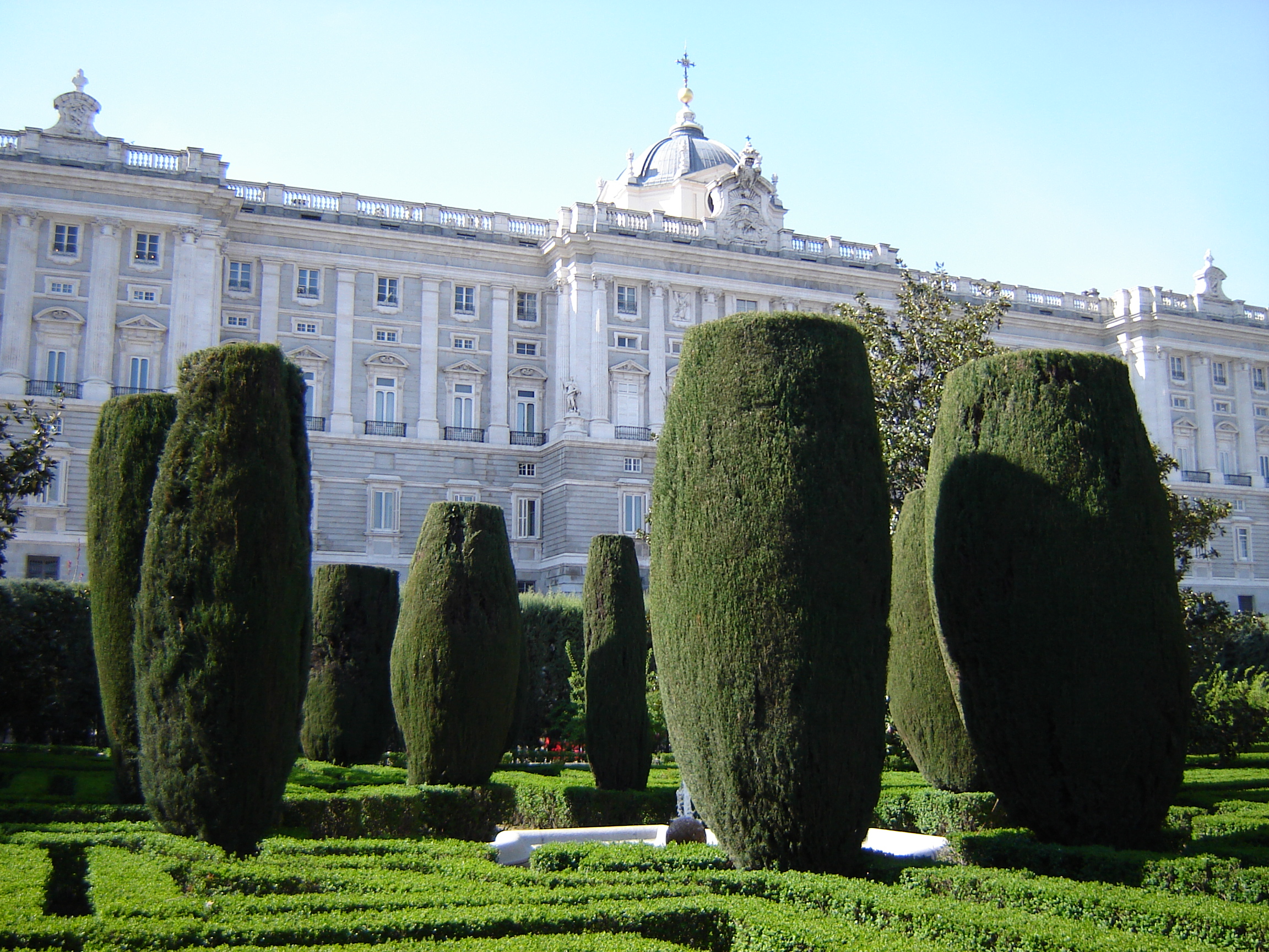 Sabatini Gardens, beside the north façade of the Royal Palace of Madrid (Spain).